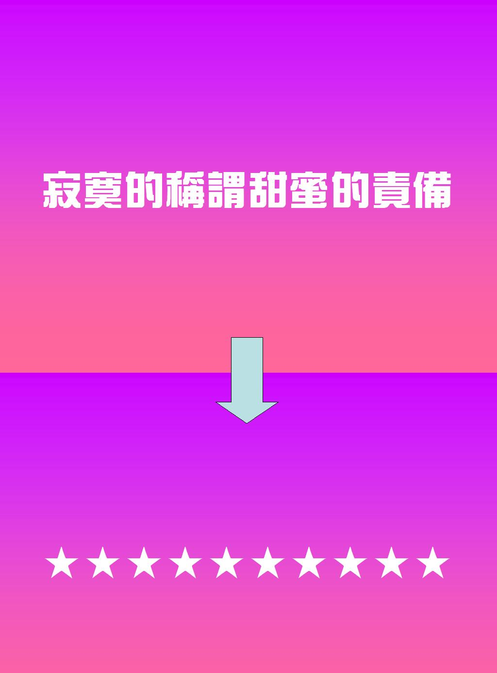 Screen Shot Simulation of the One Million Star TV Show 中文（台灣）: 《百萬大歌星》參賽者猜歌畫面模擬（此圖非由台視節目擷取，亦非由製作單位提供）